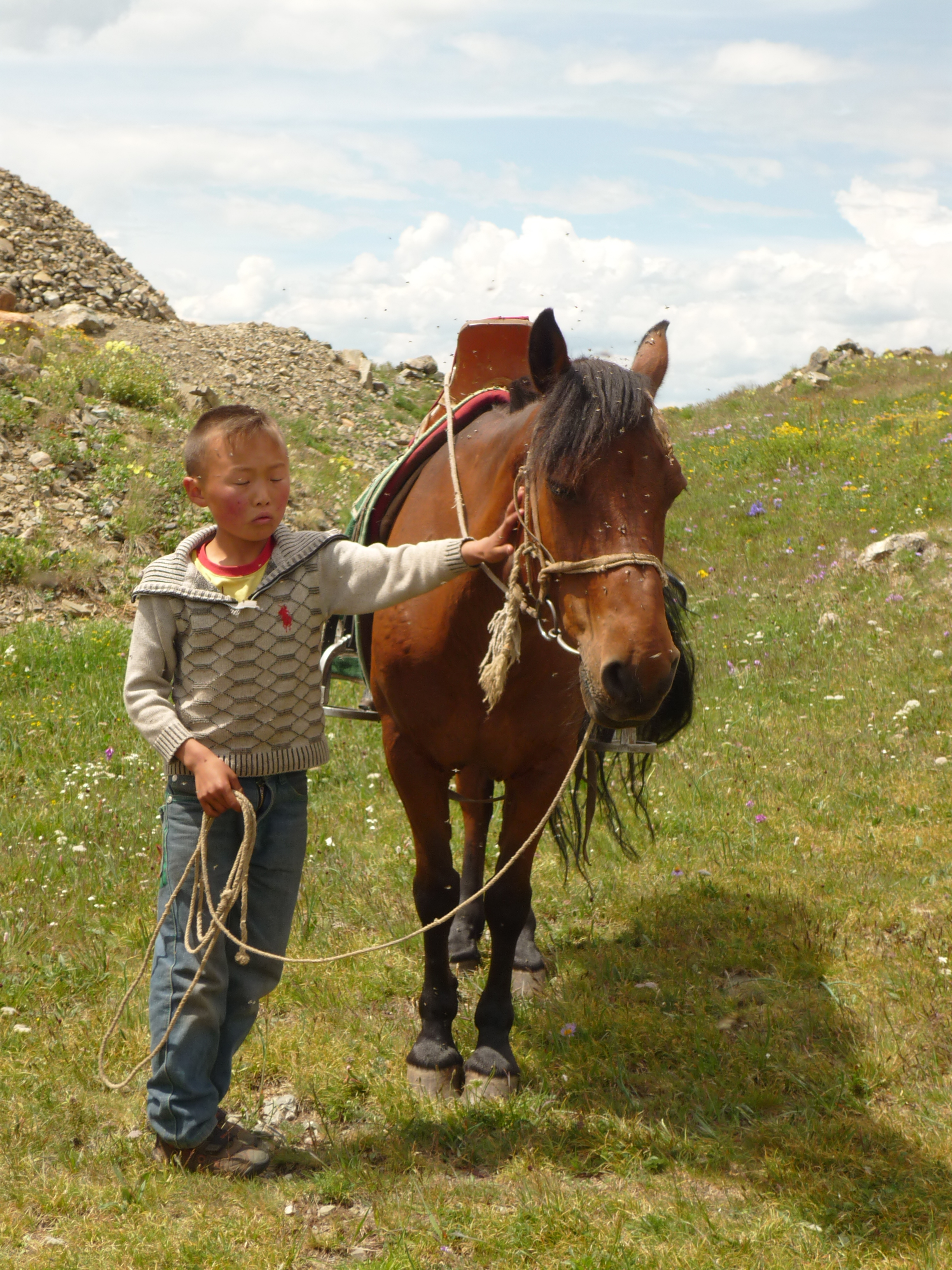 Mongolian boy with horse